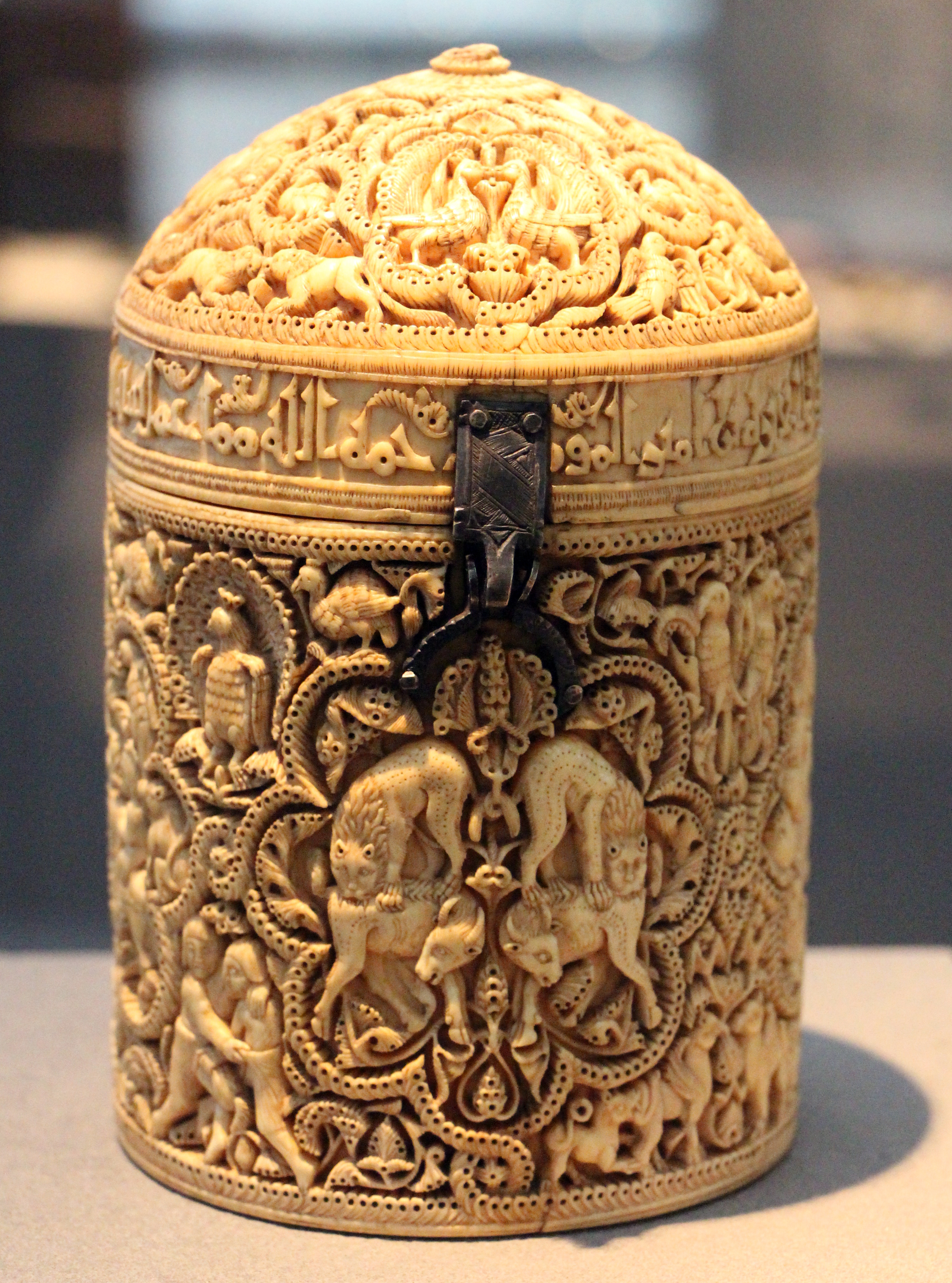 Islamic ivory in the Louvre